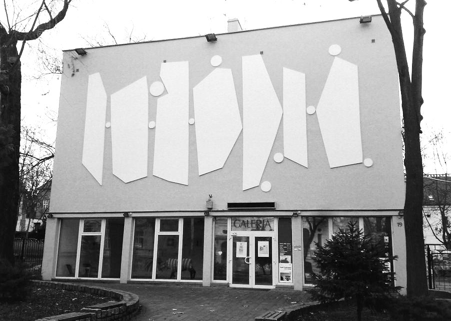 BWA Gallery in Zielona Gora with Marian Szpakowski relief.